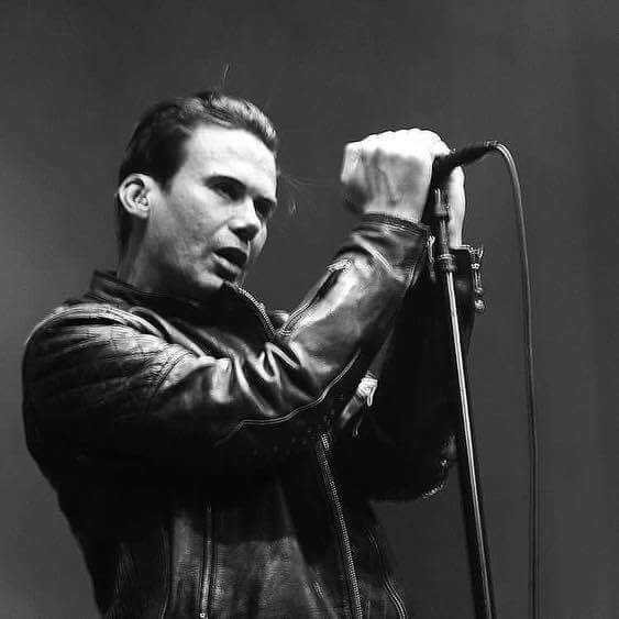 Phil Jamieson performing live in 2017